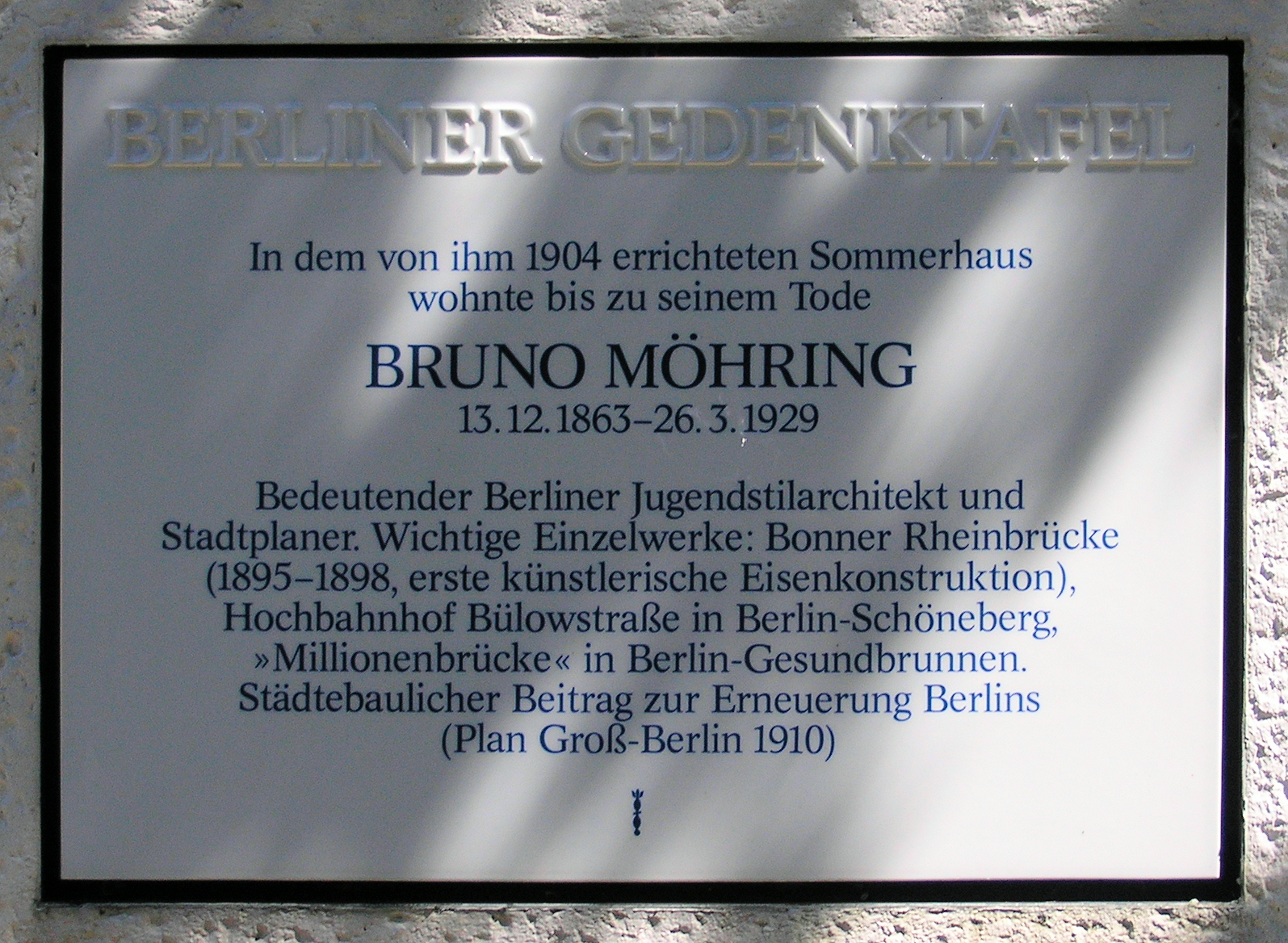 Berlin memorial plaque, Bruno Möhring, Bruno-Möhring-Straße 14a, Berlin-Marienfelde, Germany Koordinate:52°25′25″N 13°22′9″E / 52.42361°N 13.36917°E